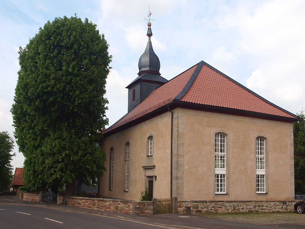 Saint Kilian Church in Schenklengsfeld-Hilmes. Built from 1820 to 1822